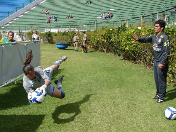 Paty's workout flying at Brazilian National Team 2009